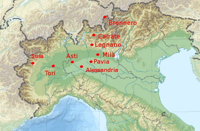 Cities involved in the battle of Legnano 1175